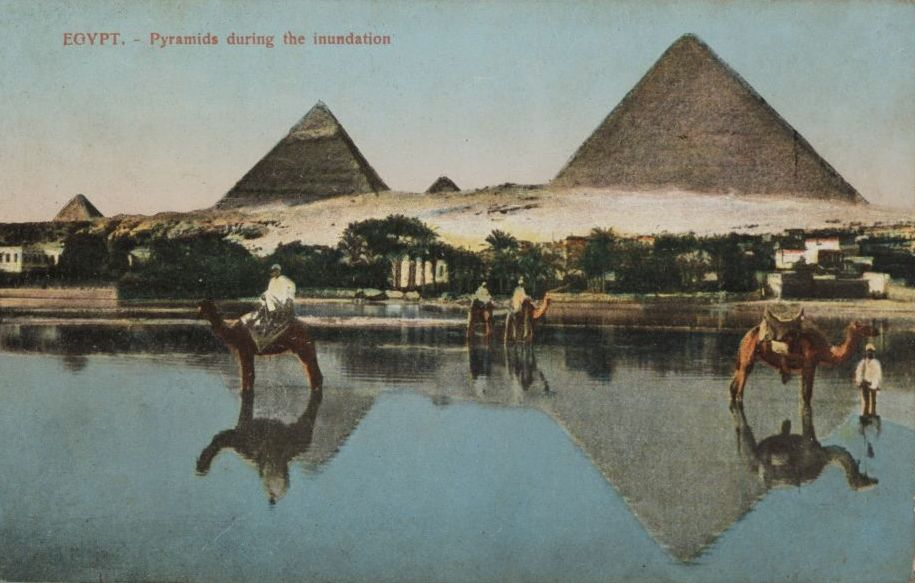 Men on camels in the river in front of the pyramids